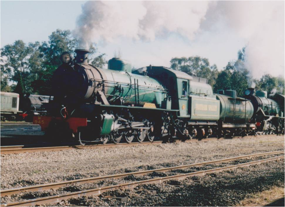 Ex-Western Australian Government Railways W class locomotive no.945 at Pinjarra with the Hotham Valley Railway. Corporal29 (talk) 07:47, 3 September 2011 (UTC) category: locomotives